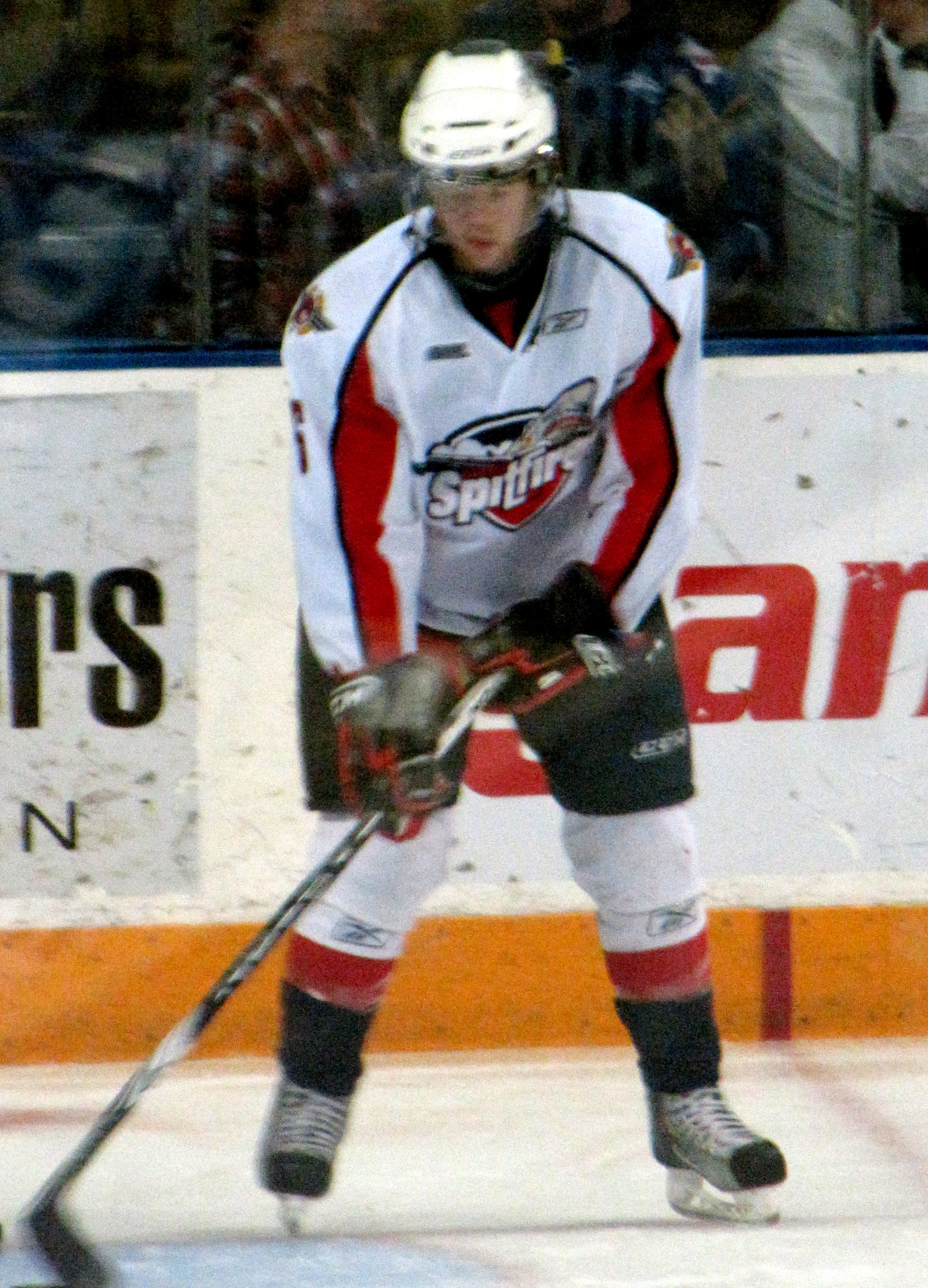 Windsor Spitfires defenceman Ryan Ellis during a game against the Kitchener Rangesr on April 20, 2010. Camera: Canon PowerShot SX10 IS License on Flickr (2010-12-29): CC-BY-SA-2.0 Flickr tags: OHL, Kitchener Rangers, Windsor Spitfires